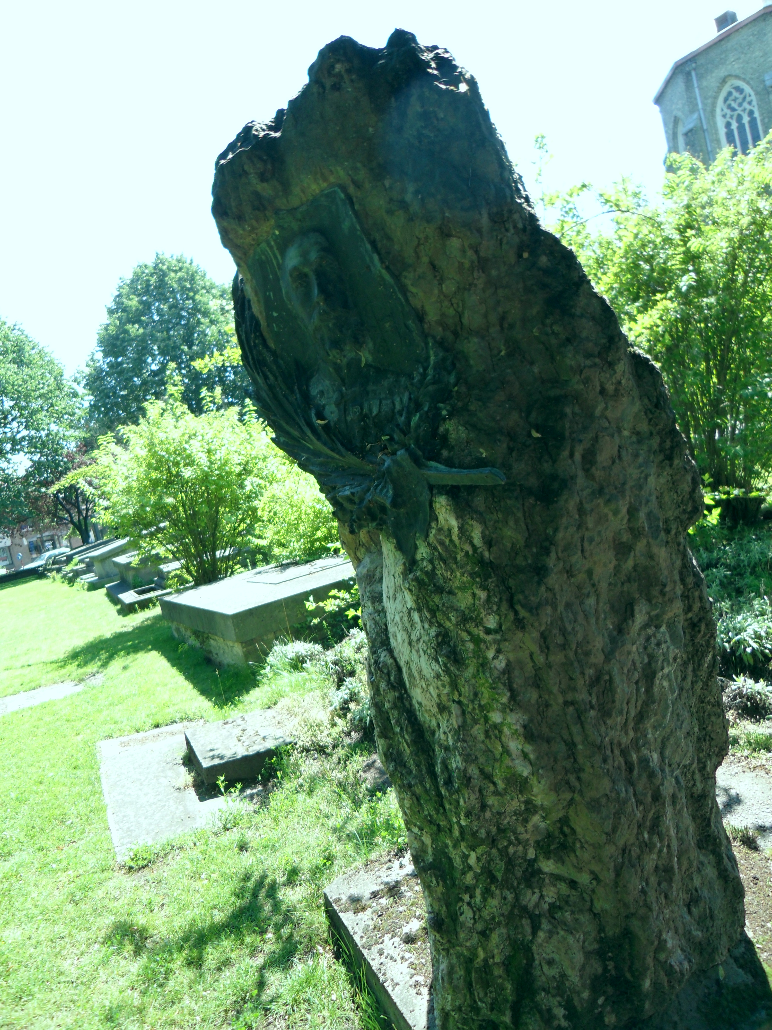 The monument erected upon the tomb of Leon Visart de Bocarmé by his comrades in arms of the Mexican expedition.